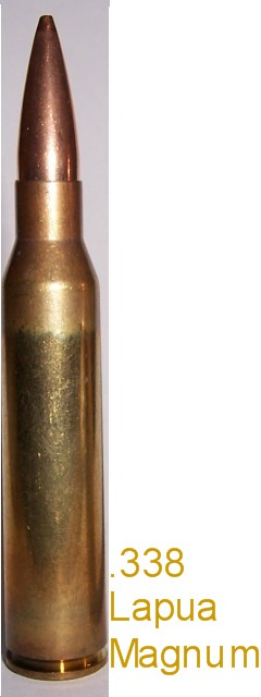 A .338 Lapua Magnum cartridge loaded with 250gr SMK